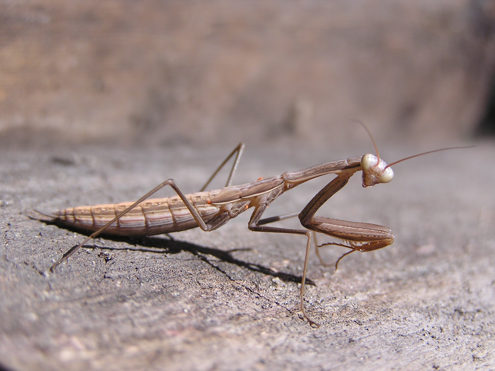 Mantidae